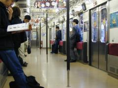 205 series 6-door "Cattle wagon" before the morning rush